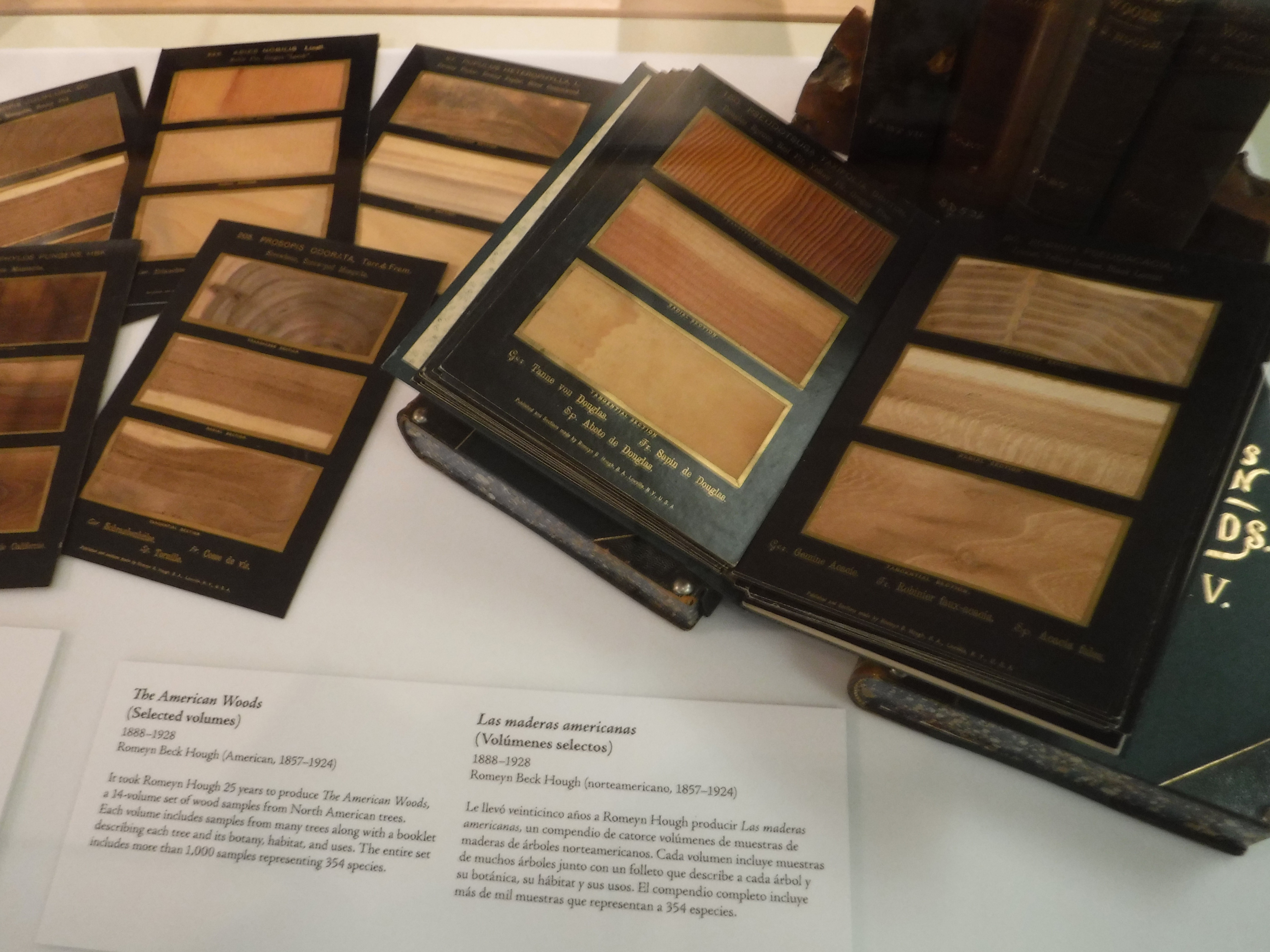 Display of volumes from Romeyn Beck Hough's American Woods sample books of woods, on display in the permanent exhibition Extraordinary Ideas From Ordinary People: A History of Citizen Science, at the San Diego Natural History Museum.